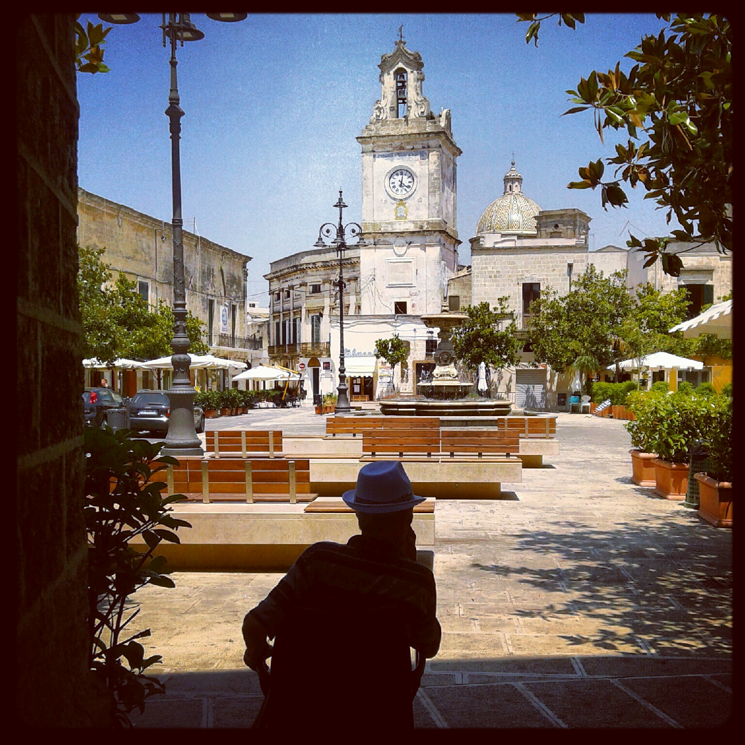 Umberto I Square, Francavilla Fontana (BR), Italy